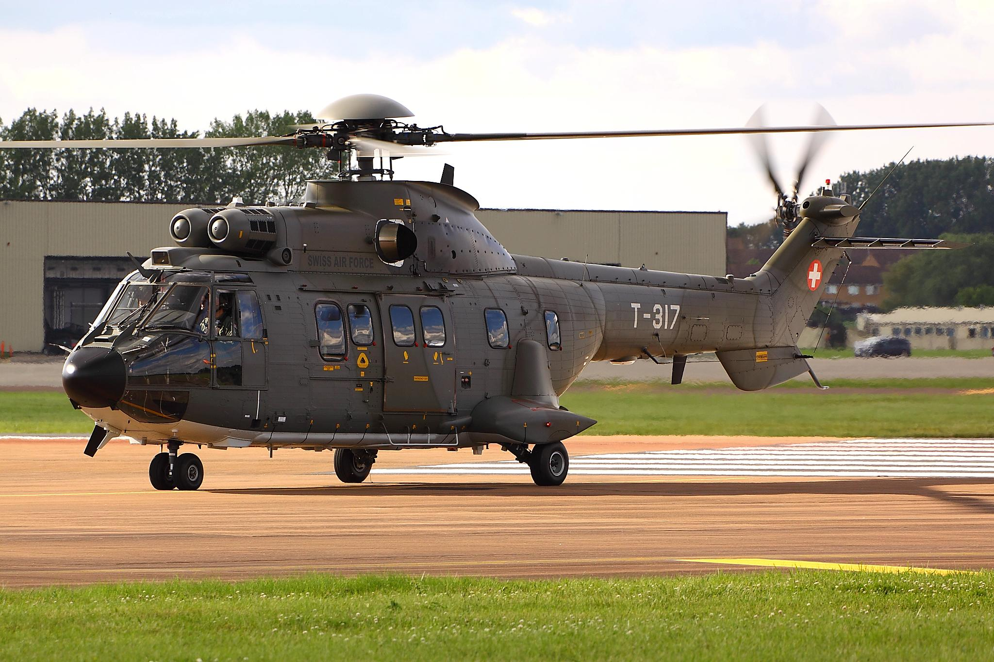 AS-332 Cougar - RIAT 2012